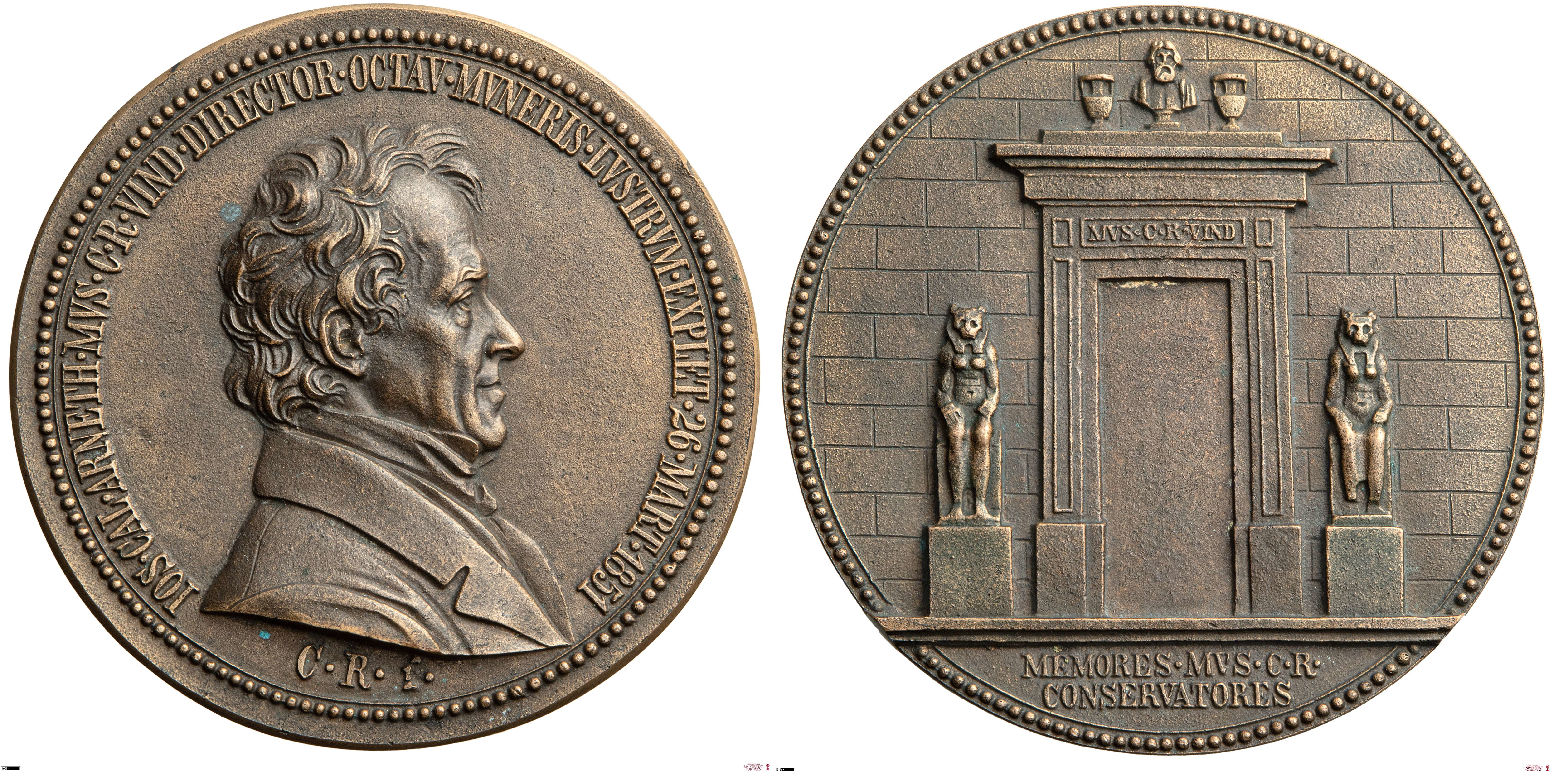 The front side depicts a bust of Arneth surrounded by a listing of his name, profession and date of his 40th anniversary of working in the Vienna Museum. The signature "C R f." indicates Karl Radnitzky as engraver. The back side pictures a gate flanked by two Egyptian reclined statues which are elevated. Two vases and a bust are placed on top of the gate which the Latin inscription identifies as belonging to the Imperial Royal Museum of Vienna (Austria). Below the image the co-workers of Arneth are named as commissioners.